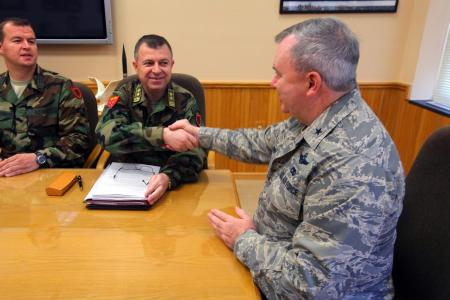 Brig. Gen. Michael L. Cunniff (right),the Adjutant General of New Jersey, shakes hands with Maj. Gen. Xhemal Gjunkshi (second from left) Chief of Defense, Albanian armed forces, during a meeting at the New Jersey Department of Military and Veterans Affairs, Lawrenceville, N.J., March 30, 2012.